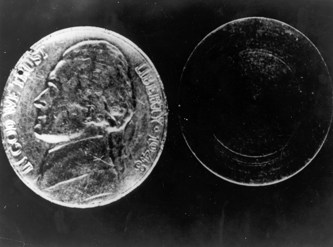 The hollow nickel handed to the FBI, containing a microphoto of ten columns of typewritten numbers which became known as the "Hollow Nickel Case" 1953 - 1957.